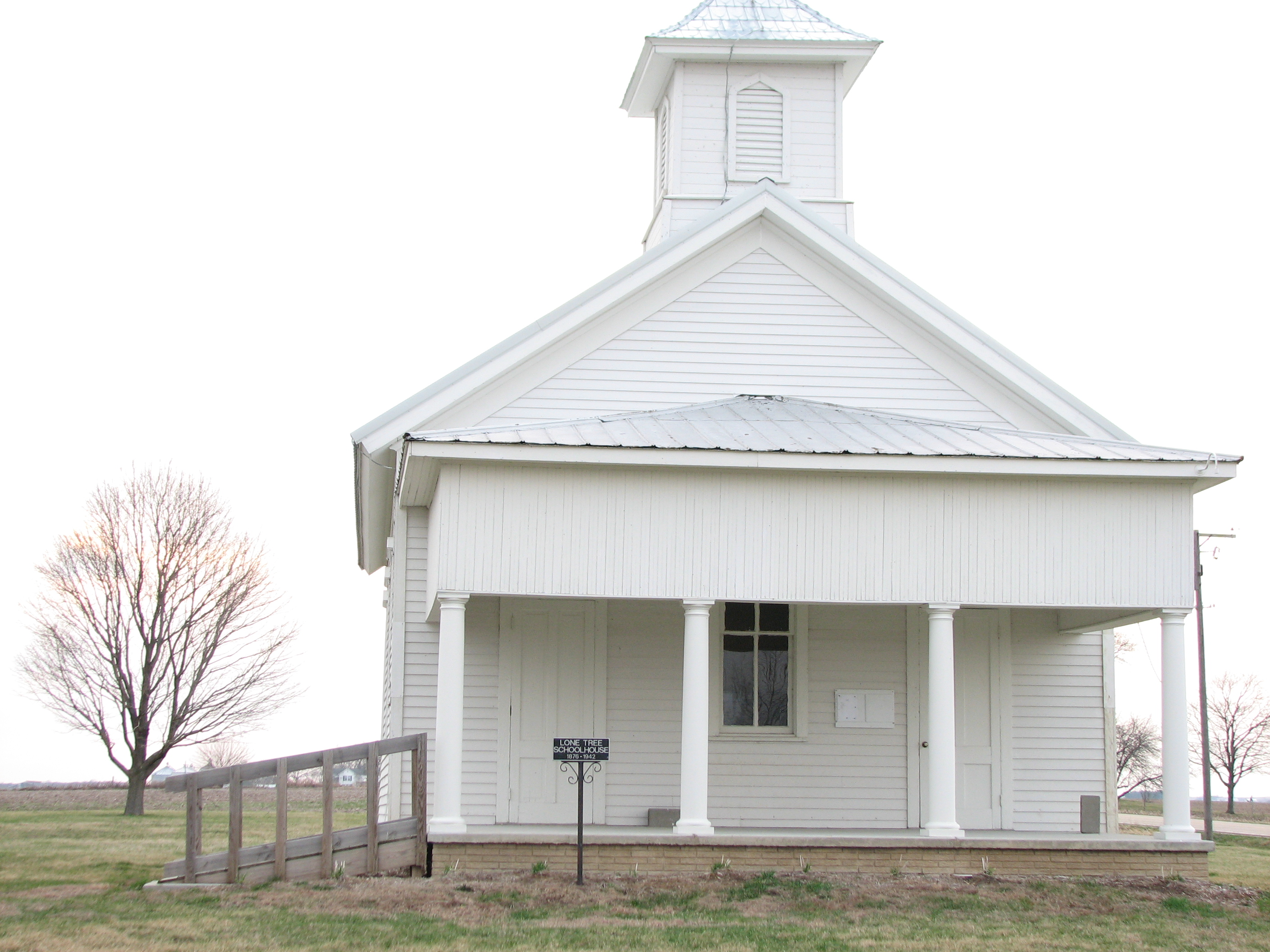 Lone Tree School at Lone Tree Corners, Whetland Township, Bureau County, Illinois, USA. The sign in front says "Lone Tree Schoolhouse" and "1876 – 1942".